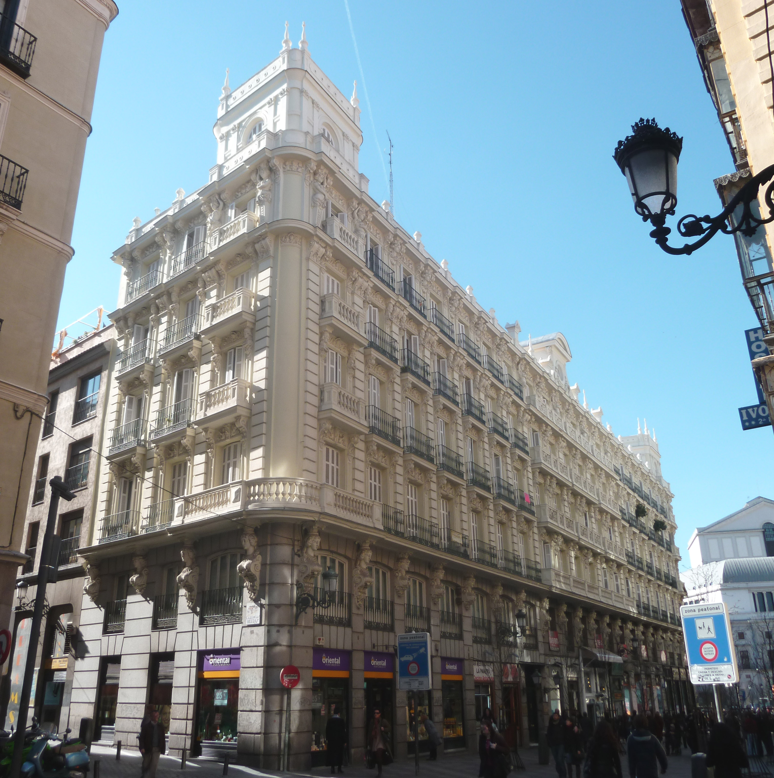 Former Hotel Internacional in Madrid (Spain).